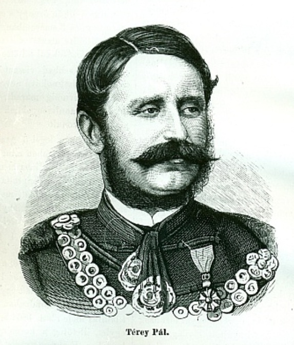 Pál Térey (1831–1883) Hungarian agronomist, Commissioner of the Hungarian government of the International Exposition in 1867.